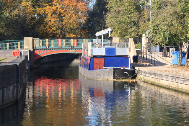 A restaurant boat on the River Little Ouse at Thetford River Little Ouse at Thetford